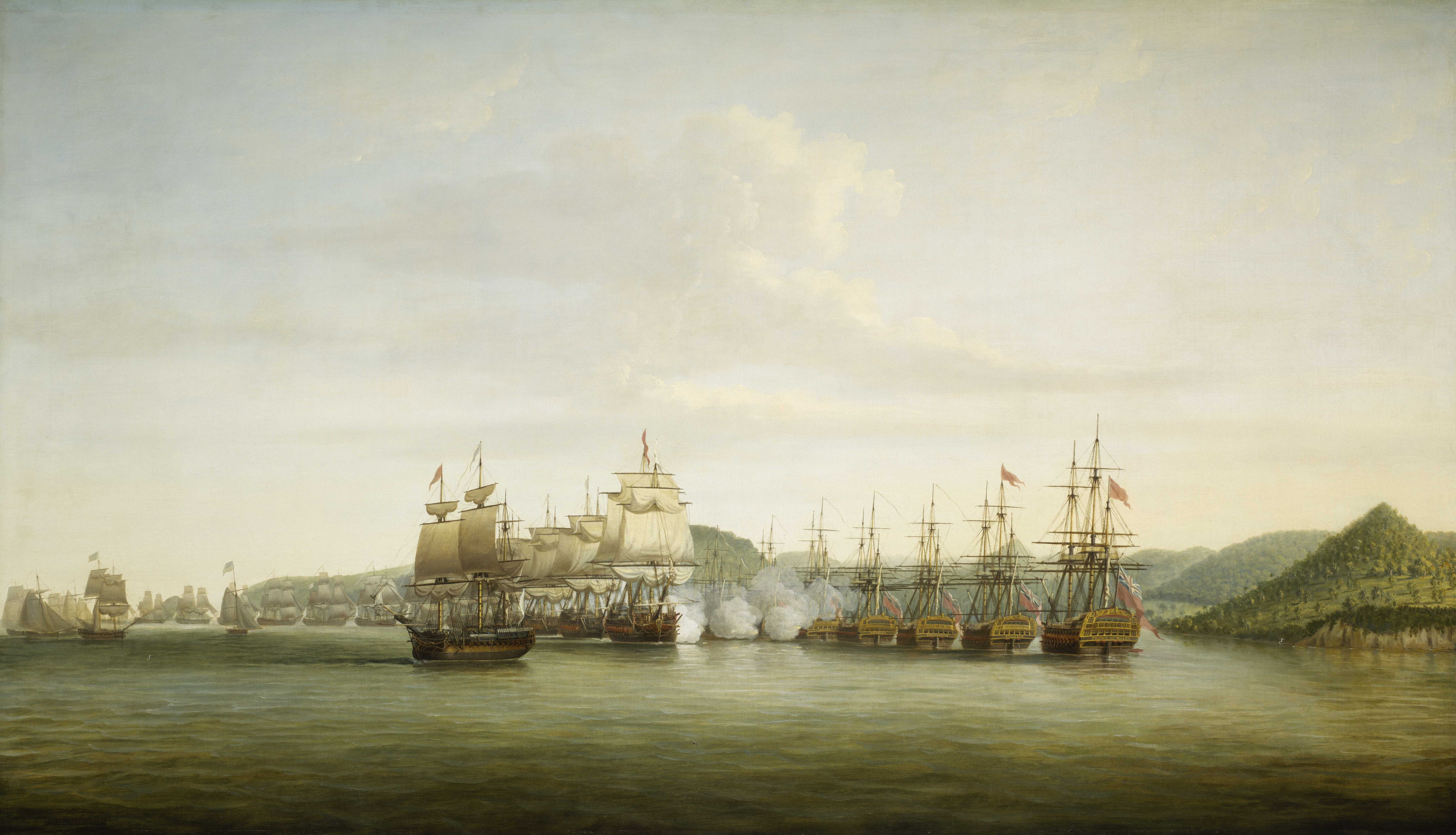 December 15, 1778, Island of St. Lucia. Naval battle between the 12 French ships of d'Estaing (left) and seven English ships of Admiral Barrington (right).